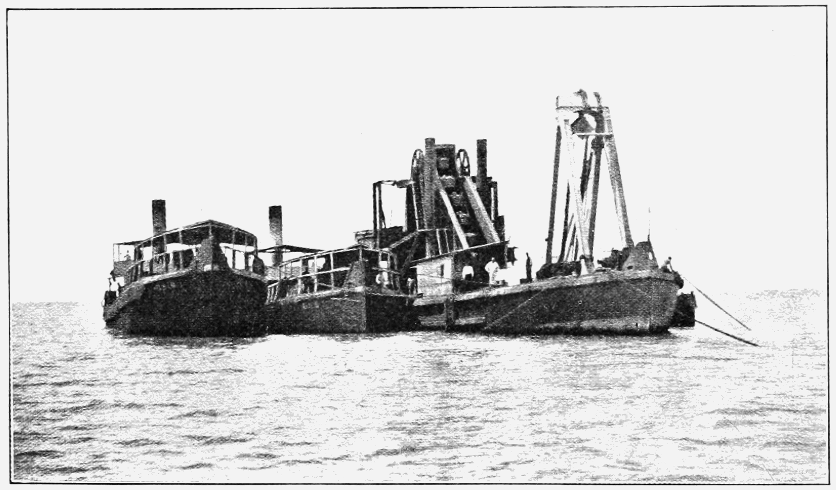 French ladder dredge working near La Boca